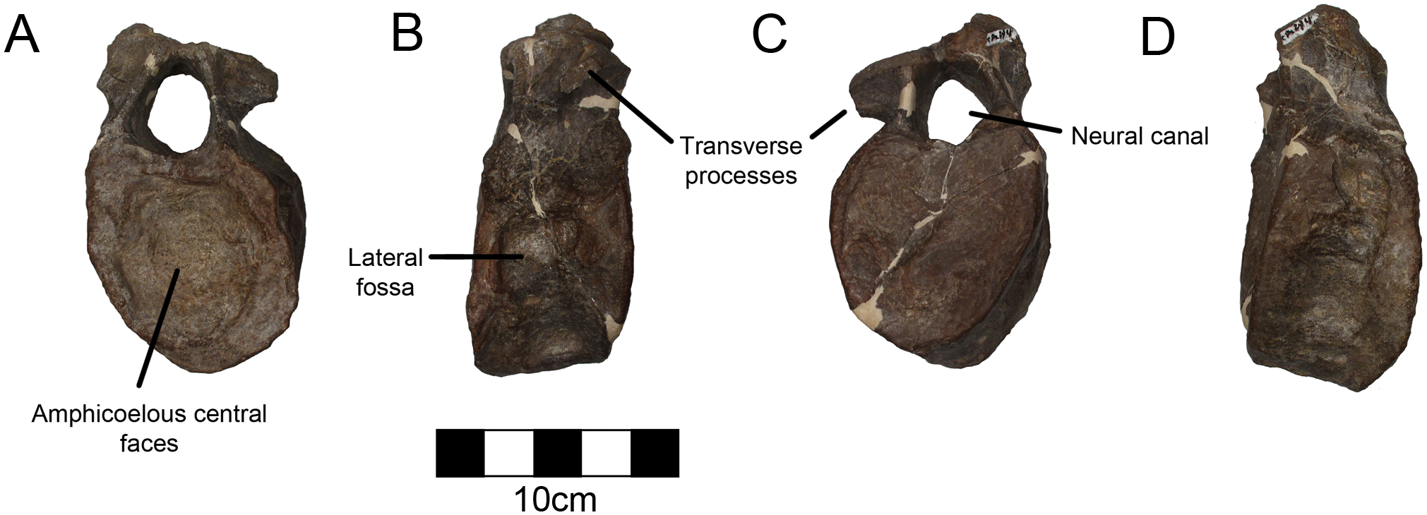 Fig 11. CPC 274 Dorsal Vertebra - A complete dorsal centrum and ventral neural arch in (A) cranial, (B) left lateral, (C) caudal, and (D) right lateral views. Scale = 10 cm.